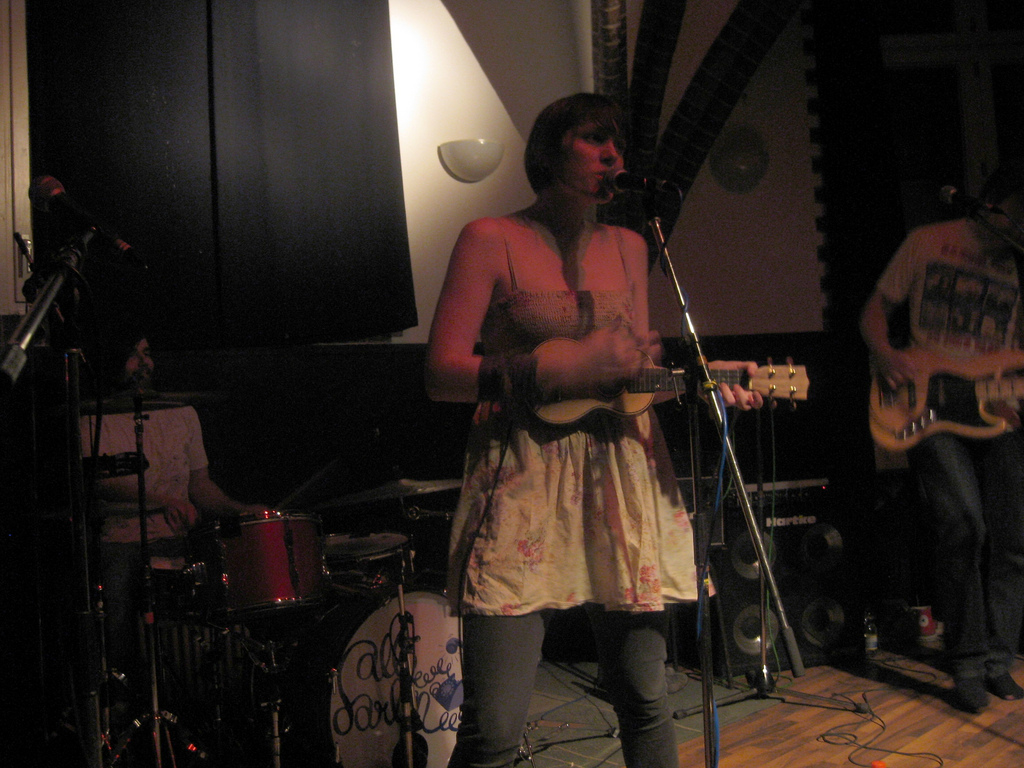 Allo Darlin'